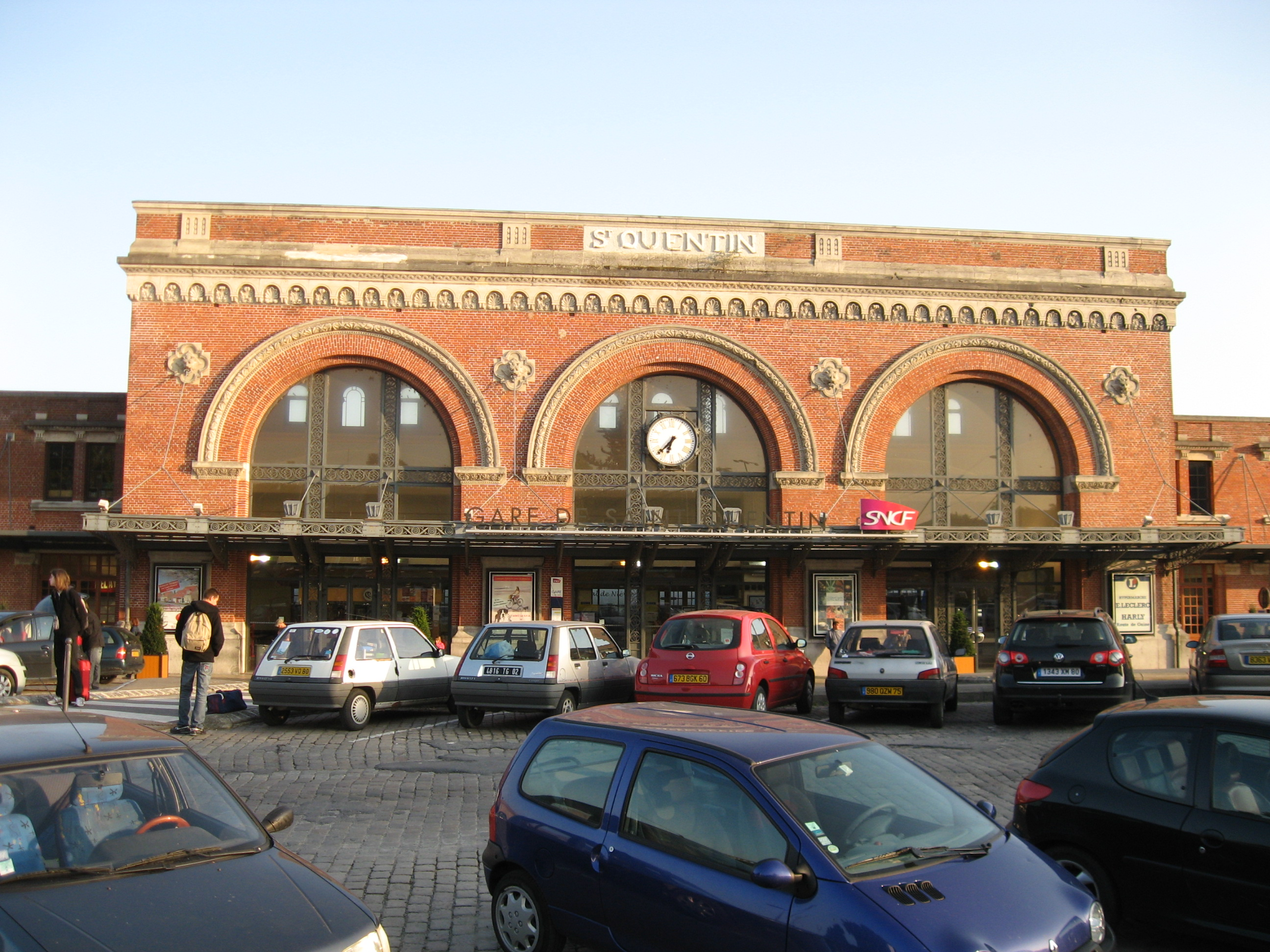 Saint-Quentin station